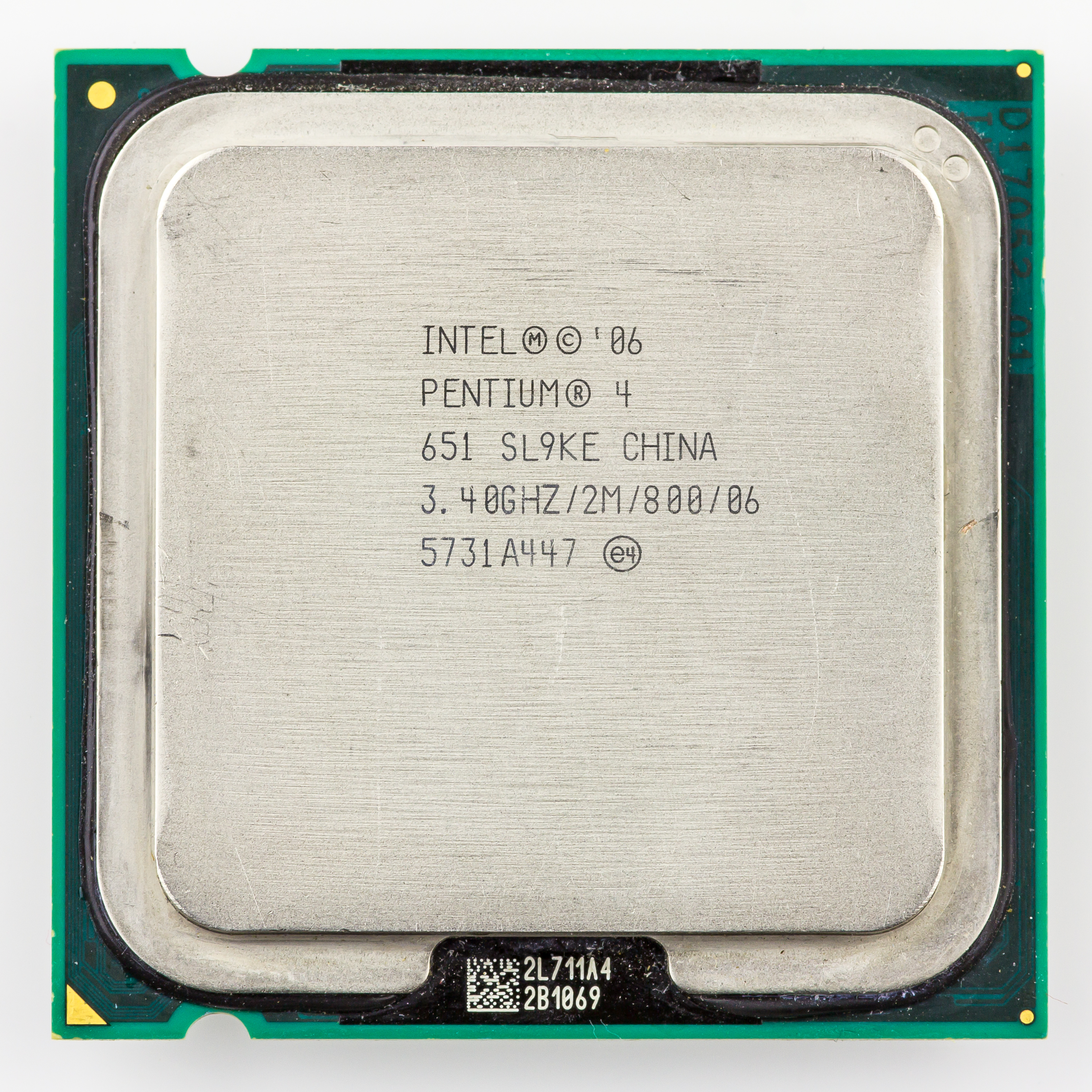 Intel microprocessor Pentium 4 HT 651 3.4 GHz - SL9KE (Cedar Mill)